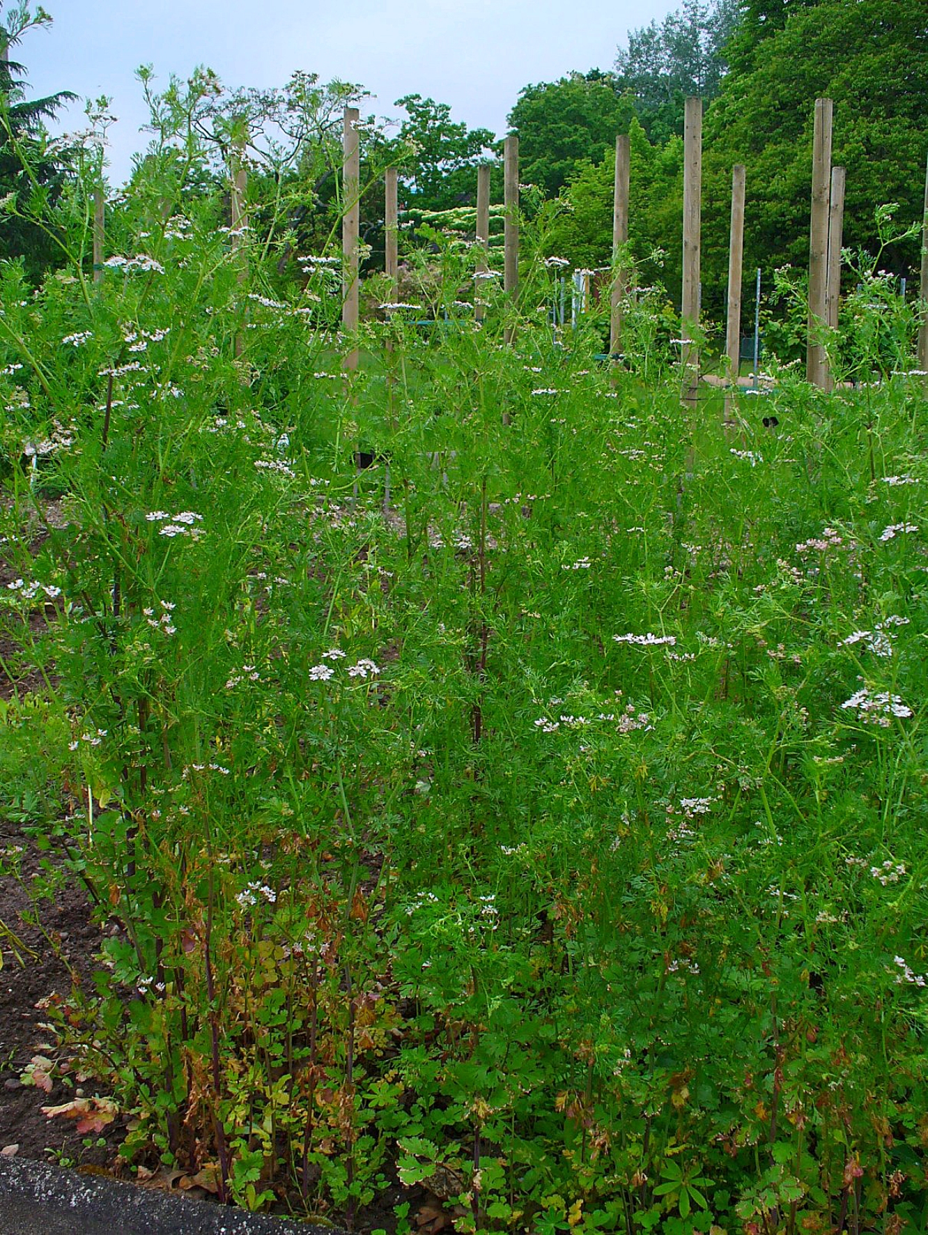 Coriandrum sativum, Apiaceae, Coriander, Chinese parsley, habitus; Botanical Garden KIT, Karlsruhe, Germany. The seeds are used in homeopathy as remedy: Coriandrum sativum (Coriand.)